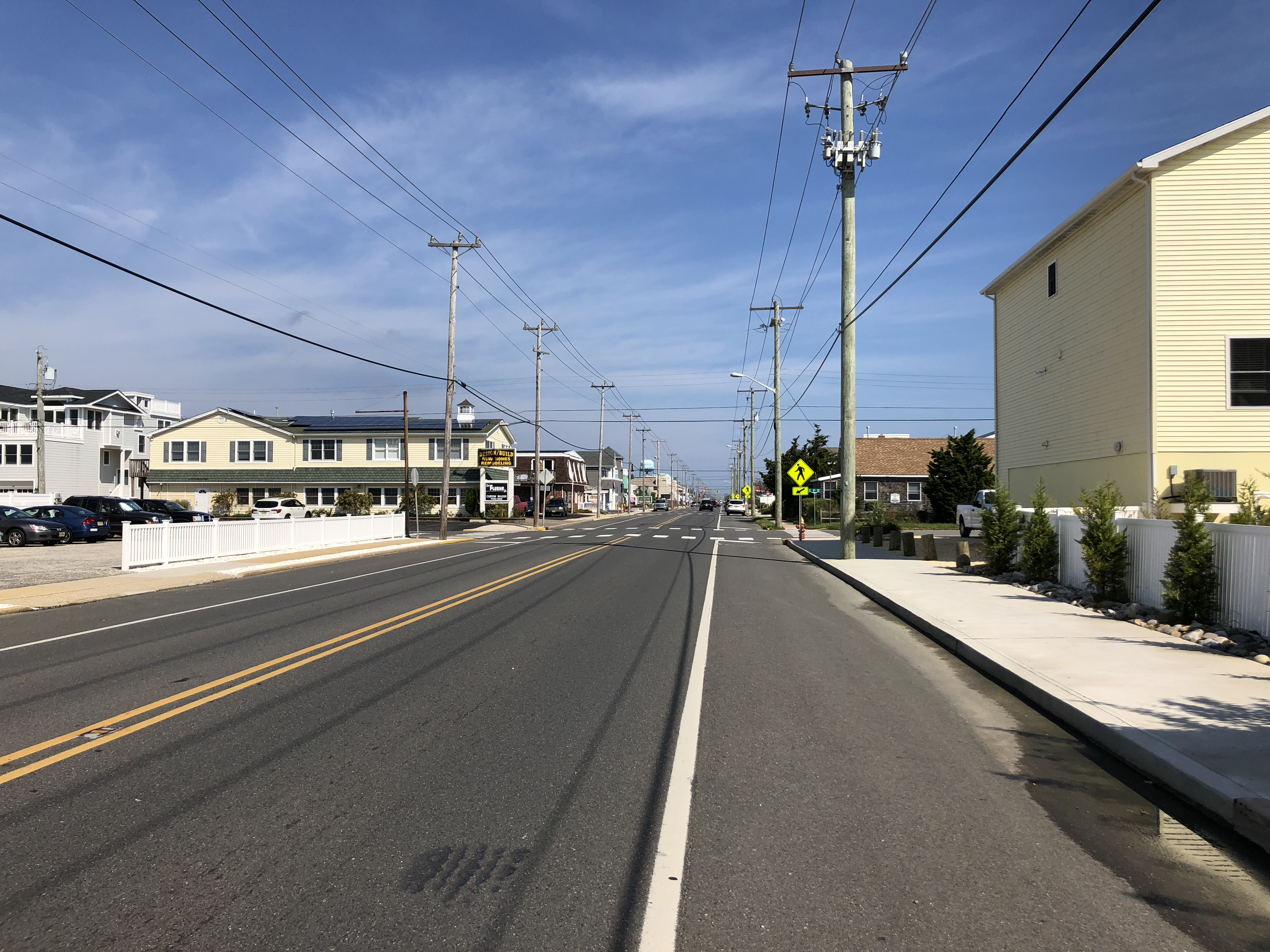 View north along Ocean County Route 607 (Long Beach Boulevard) between South Second Street and South First Street in Surf City, Ocean County, New Jersey